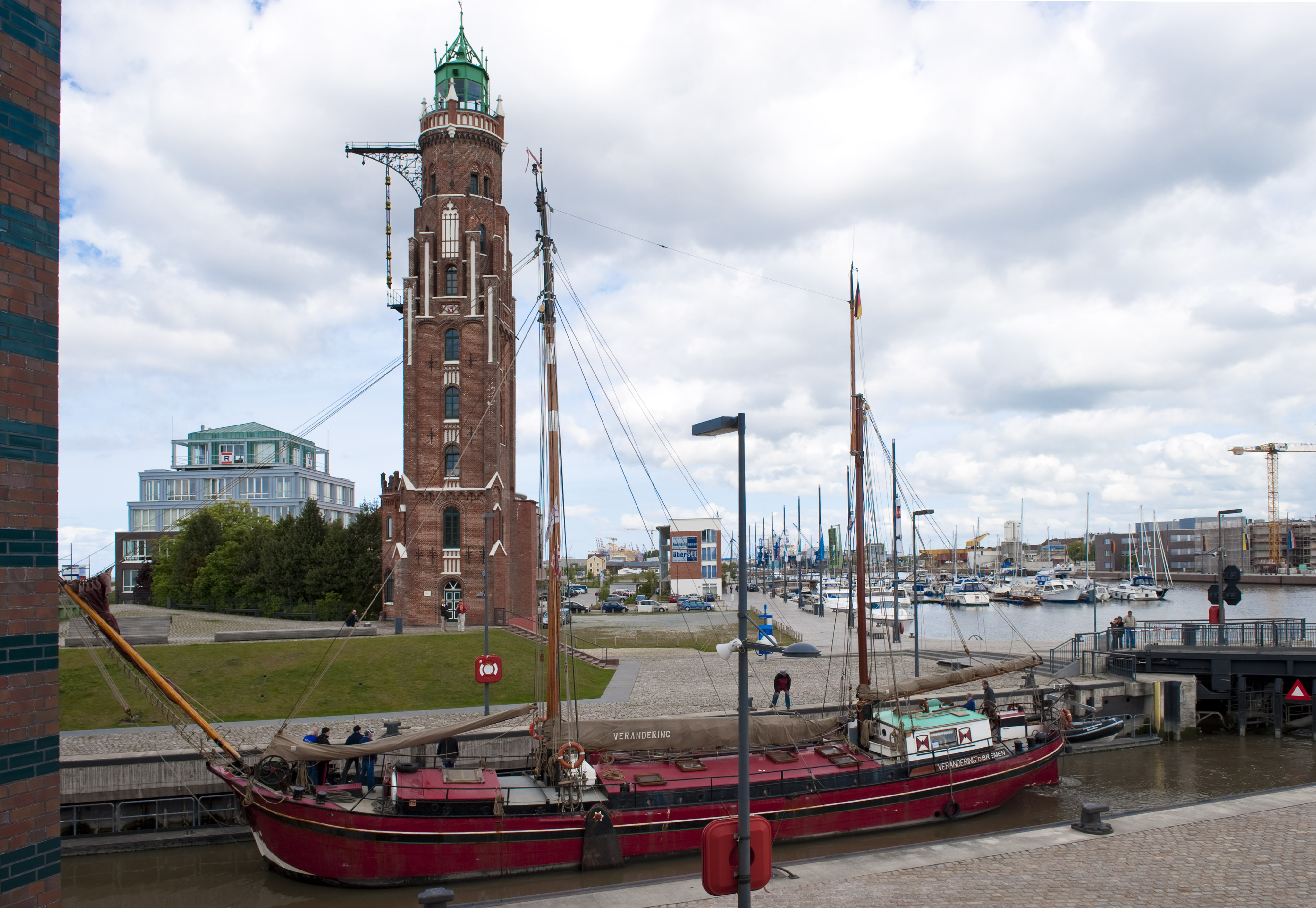 Sluice to old harbour in Bremerhaven with Loschen light house